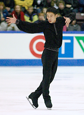 Li Chengjiang competes his long program at the 2003 Skate Canada competition in Mississauga, Ontario. Photo taken by me, Vesperholly 07:41, 17 July 2006 (UTC)